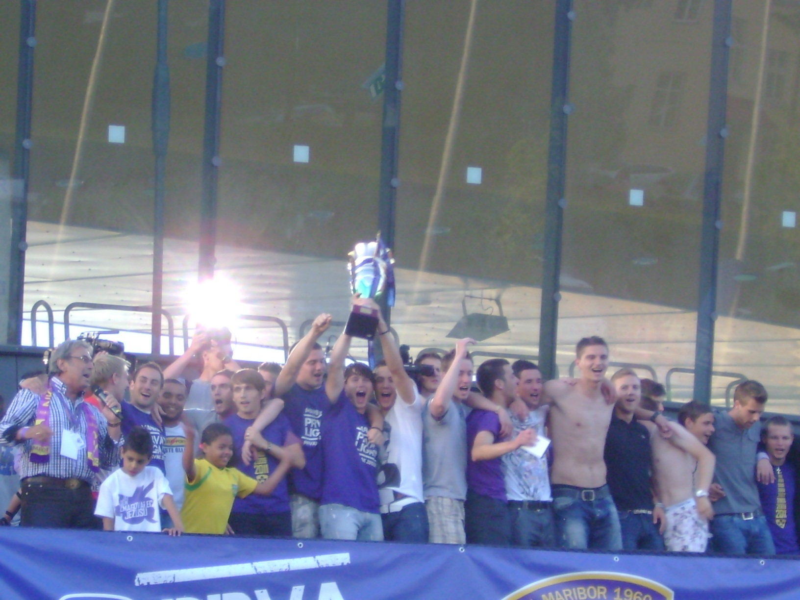 Maribor players celebrating their ninth league title (29 May 2011)